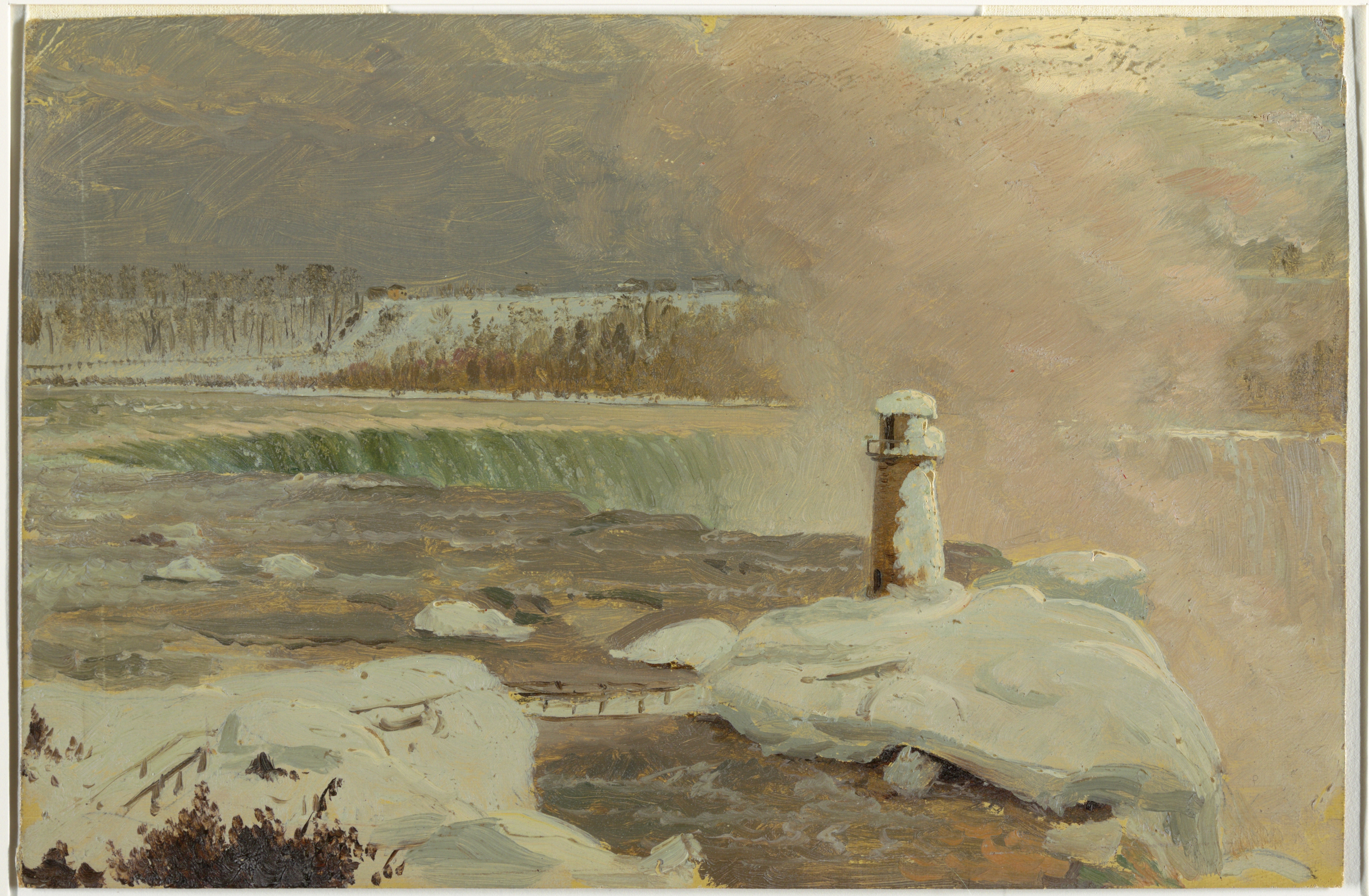 Horizontal views of Terrapin Point and the Horseshoe Falls covered with snow, as seen from Goat Island